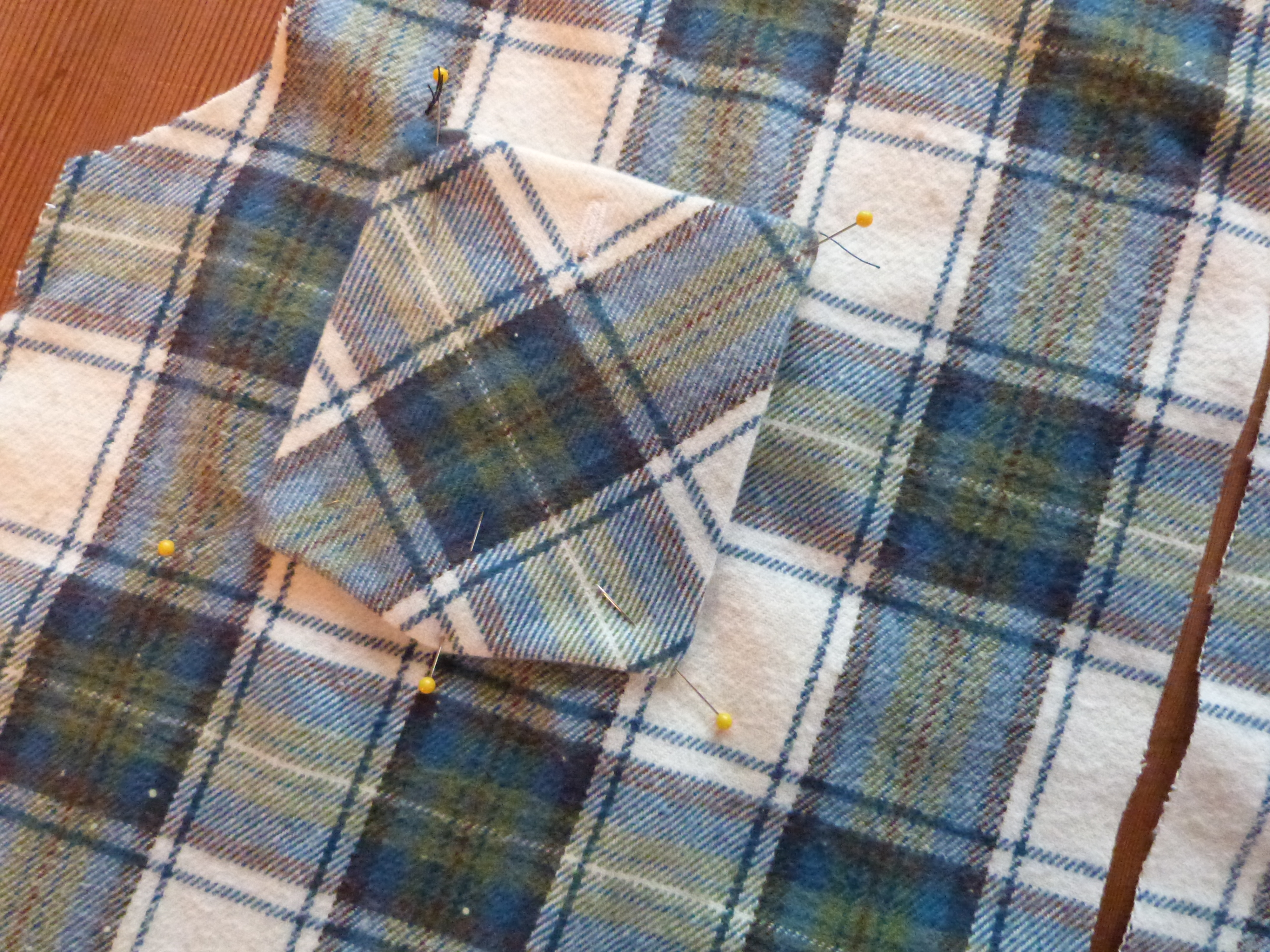 Pin pockets. You certainly don't need any more pins than shown, here (five).